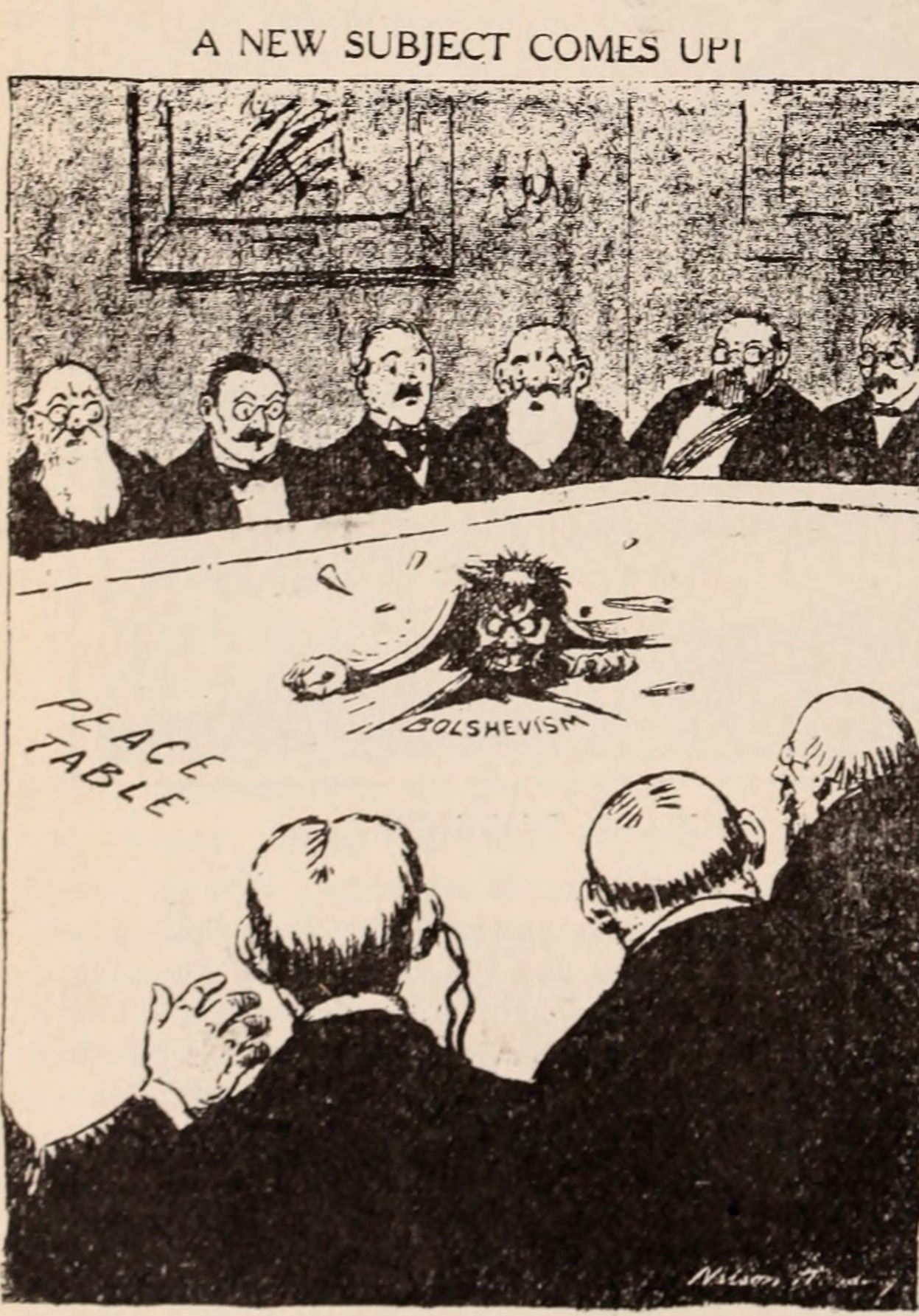 Title: Baltimore and Ohio employees magazine Year: 1912 (1910s) Authors: Baltimore and Ohio employees magazine Baltimore and Ohio Railroad Company Subjects: Baltimore and Ohio Railroad Company Publisher: (Baltimore, Baltimore and Ohio Railroad) Text Appearing Before Image: given quarters on the second floor of this building, the hotel service having been discontinued,In 1912, extensive improvement was made on the property. The interior of the building was remodeled and an addition waserected at the north end of the building to accommodate the Station Baggage and Express Company employes and service. At the present time the first floor of the building is occupied by the foll£)wing offices: Ticket office, general waitingroom, mens waiting room, womens waiting room, restaurant and telegraph office. The second floor is used by theDivision officers. The building contains sixteen rooms and is occupied by seventy-two employes. It is equipped with allmodern conveniences and is an ideal place to work. Patrons of the road are generally impressed with its neat appearanceand with the small parks which surround the property and which are kept in fine condition. Current Events as Seen The Be,i rre,e,„ii^ lg,.,„,/ ihe HoUheiik tytdemic • \0 WHERE TO GO BUT OUT Text Appearing After Image: 48 —Courtesy New York Tribune by the Cartoonists FRA;4CE: vol think him SAre^Q^1pN^-VMP BLT VOU DO NOT LIVE NEXT VVHEN THE NEW COOK ARRI\KS ON THl. JOB